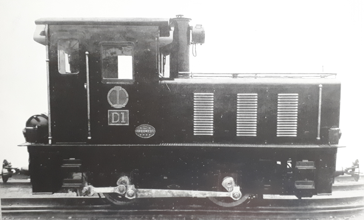 Class D diesel locomotive of the Chosen Railway